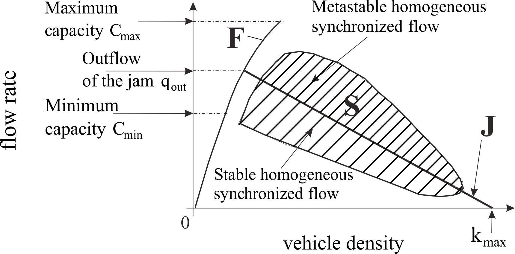 Empirical example of cascade of F → S → J phase transitions together with return transitions (S → F, J → S, and J → F transitions) in Kerner’s three-phase traffic theory: (a) The phase transitions occurring in space and time. (b) The representation of the same phase transitions as those in (a) in the speed-density plane.